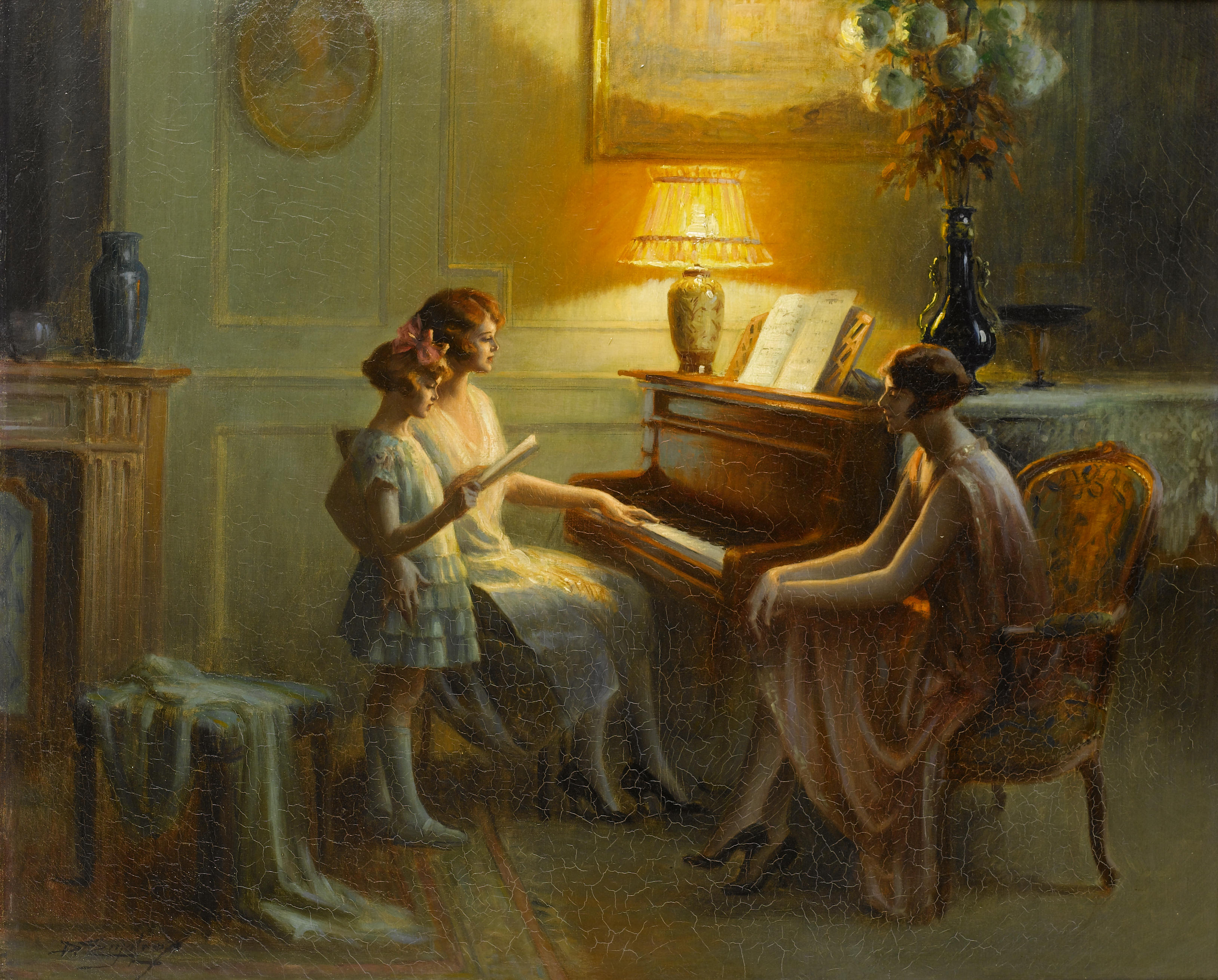 19th century french impressionist art.